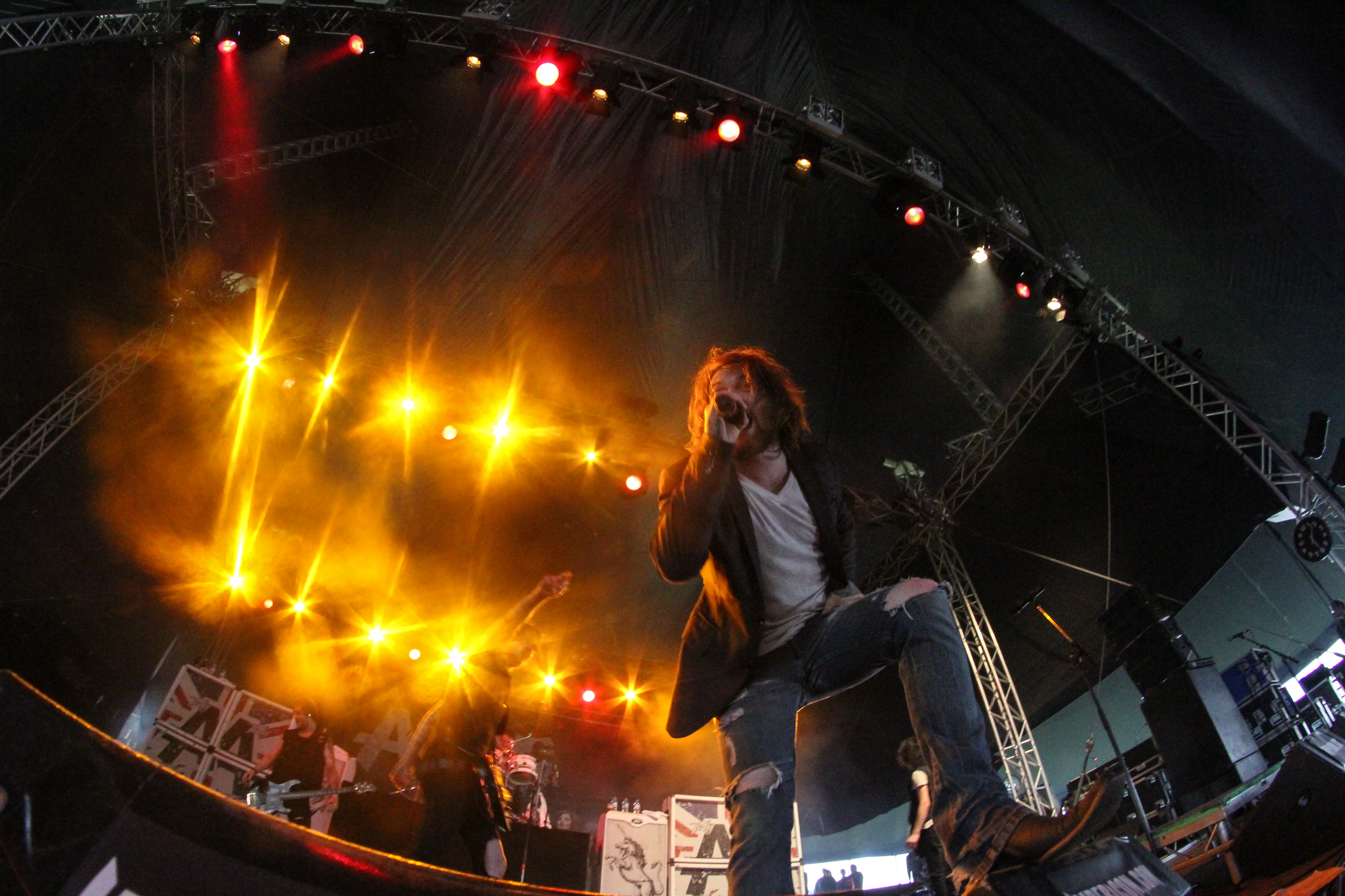 Festivalsommer This photo was created with the support of donations to Wikimedia Deutschland in the context of the CPB project "Festival Summer".